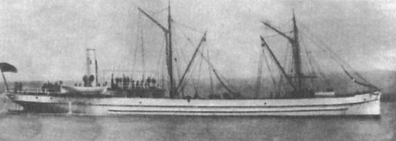 Steam schooner El'pidifor.